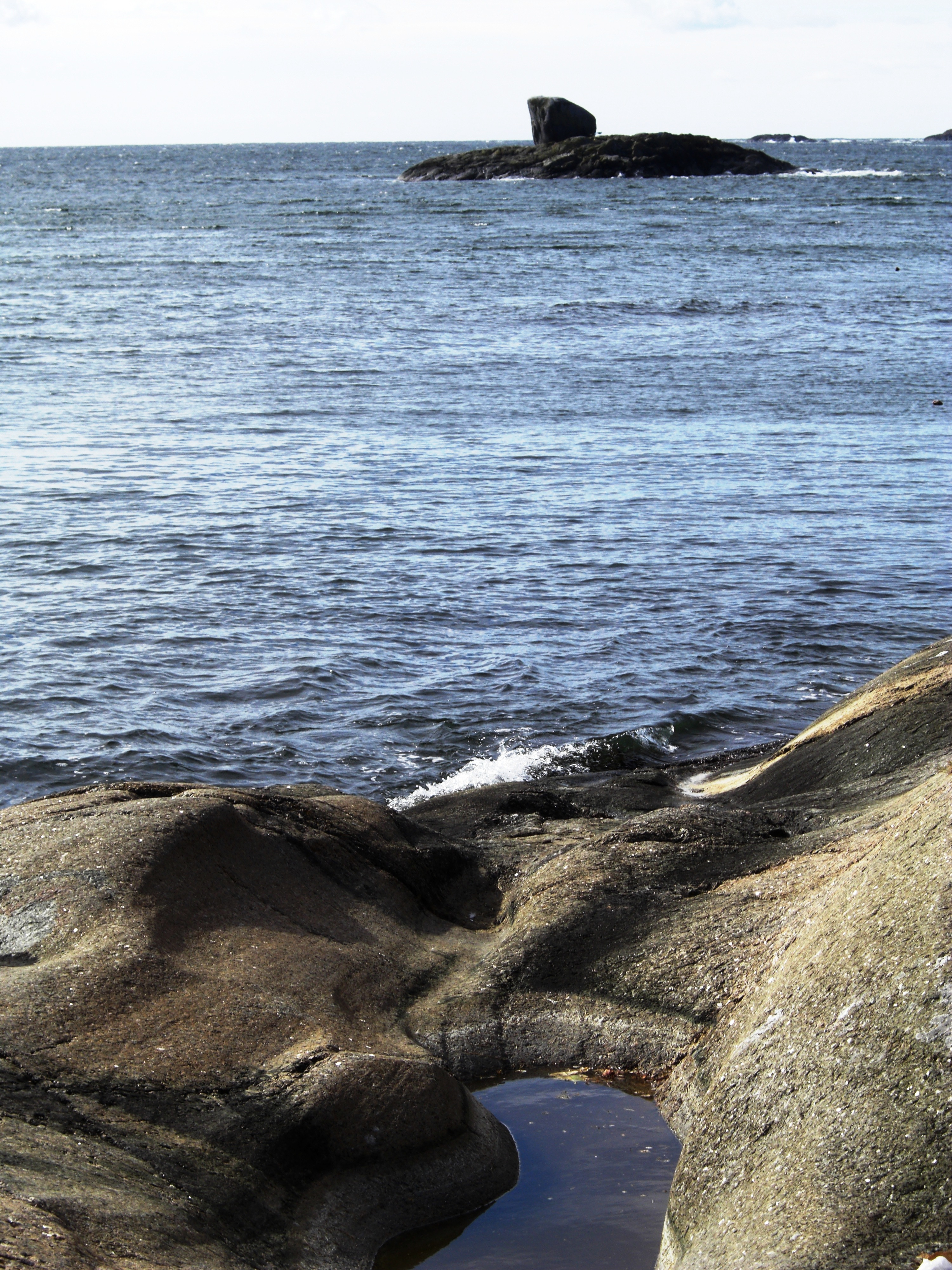 Humlesekken